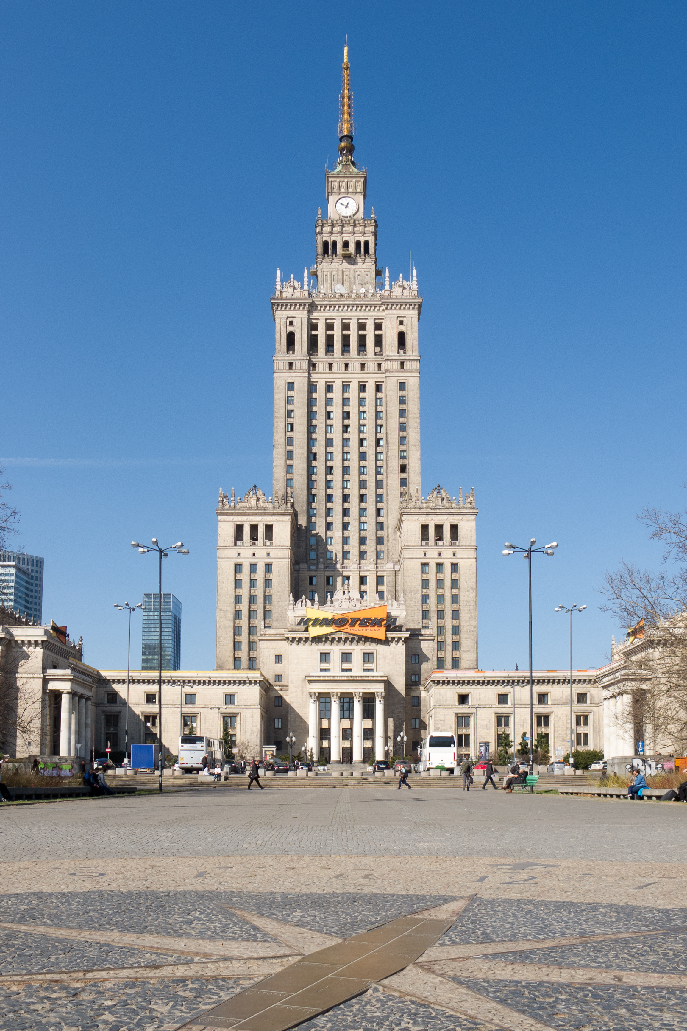 Palace of Culture and Science, Warsaw, Poland.